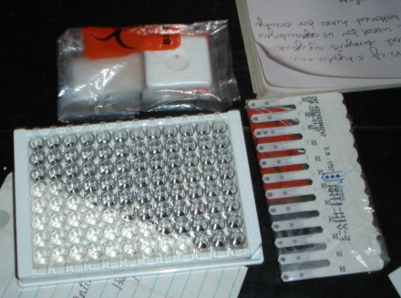 equipments used in ELISA test